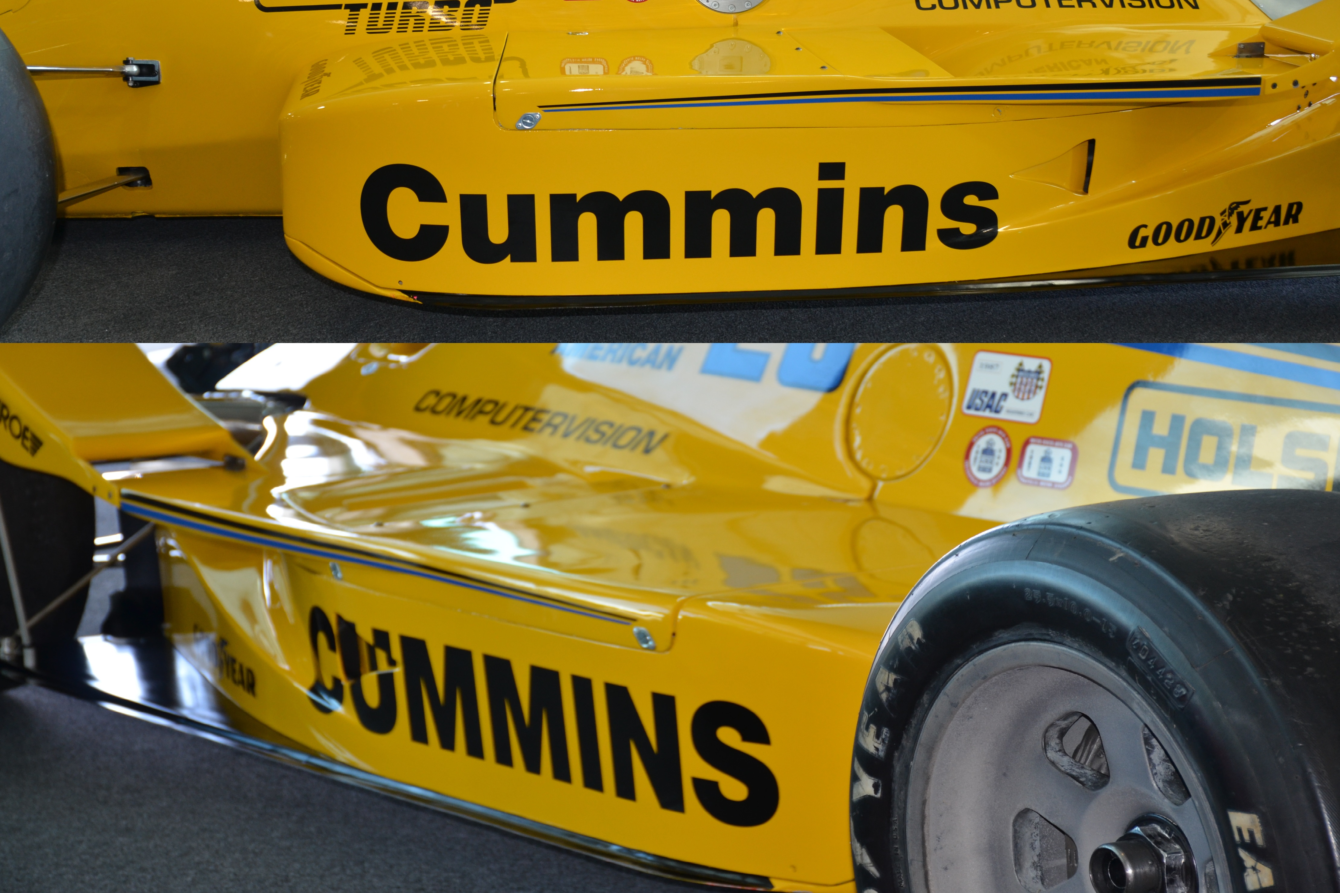 A replica of Al Unser Sr.'s 1987 Indianapolis winning car. With accurately depicted "Cummins" decals.